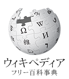 Wikipedia logo 2.0